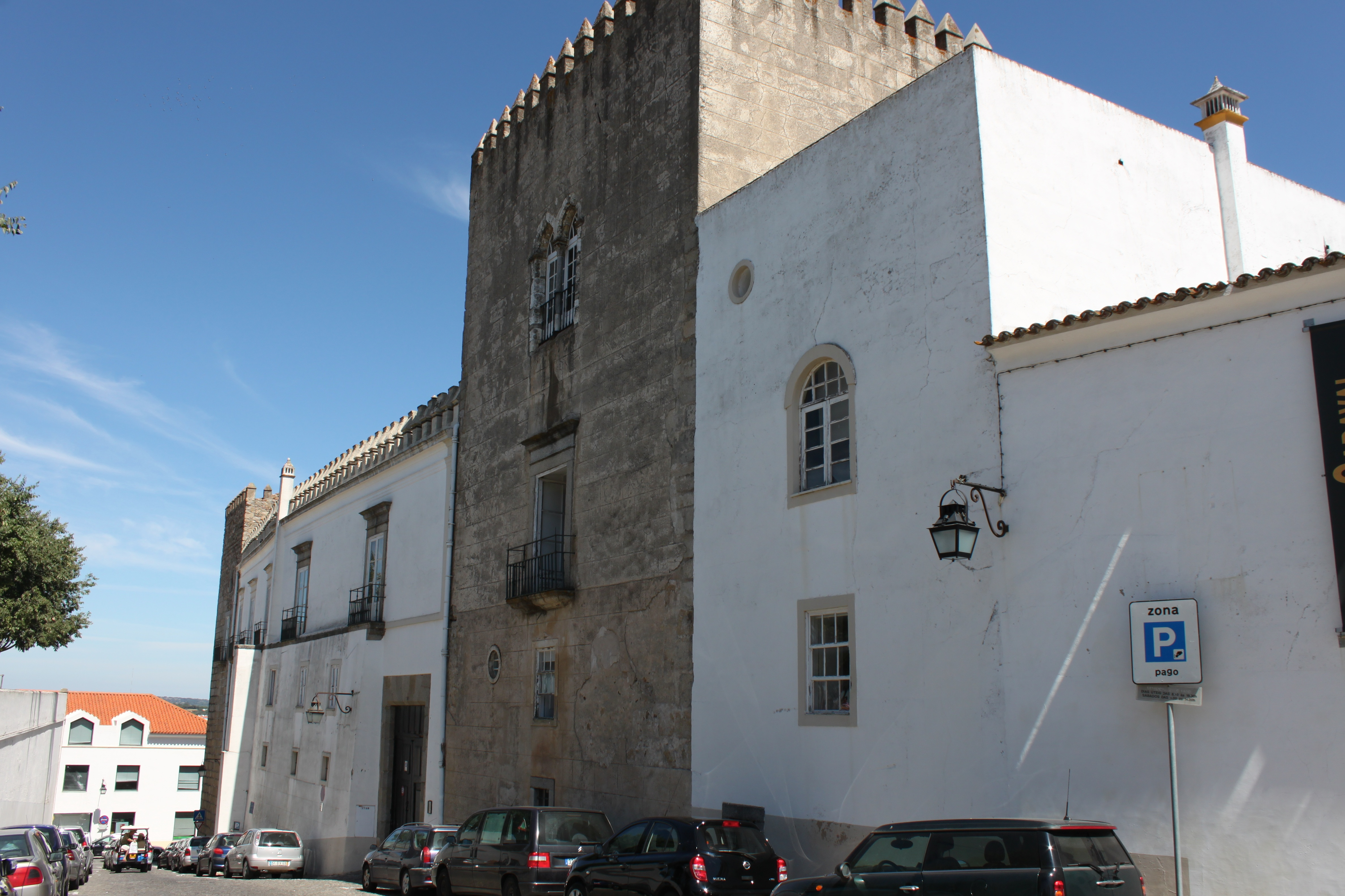 This file was uploaded for Wiki Loves Monuments in Portugal with the unique identifier 97004363.